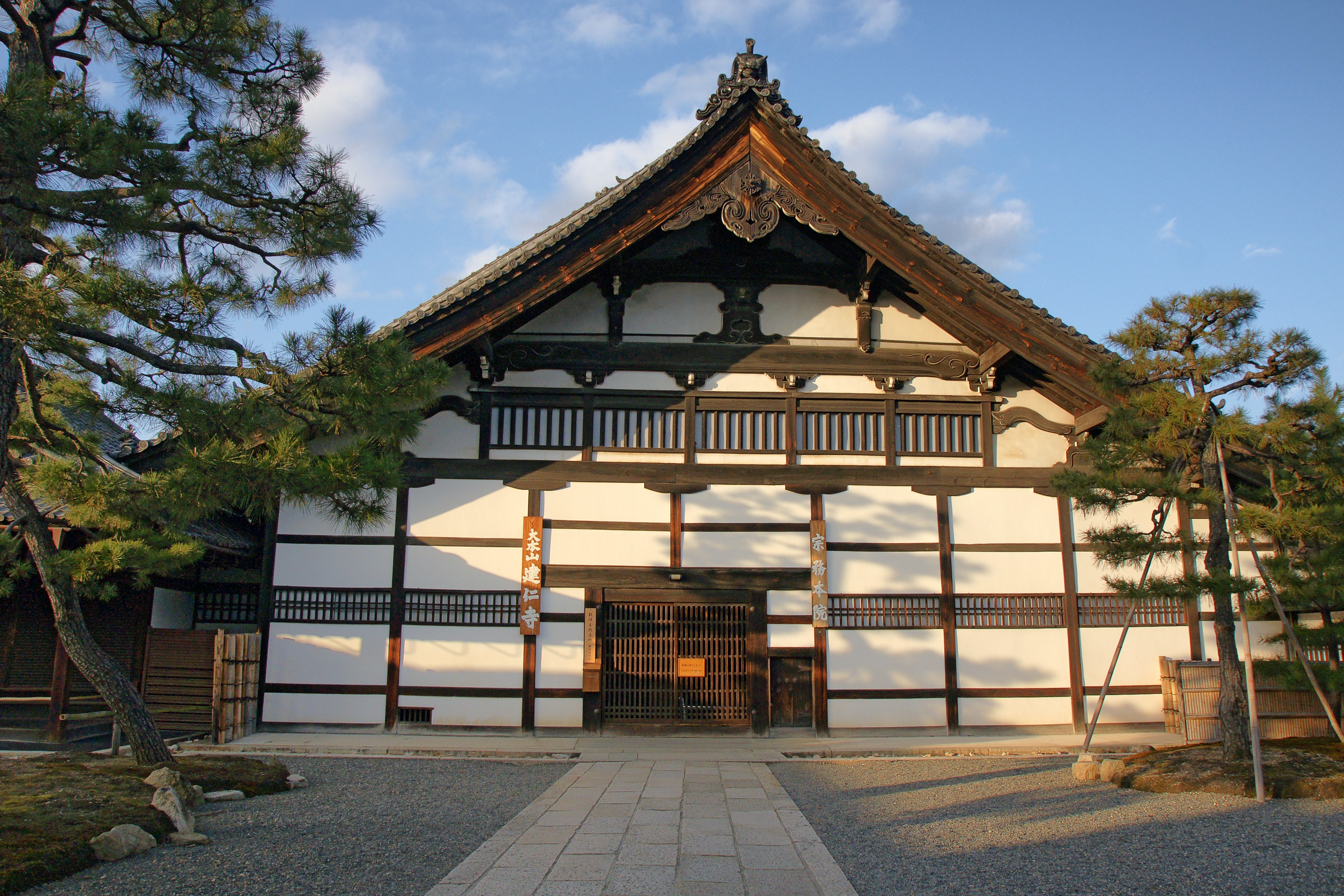 Kennin-ji in Higashiyama-ku, Kyoto, Kyoto Prefecture, Japan